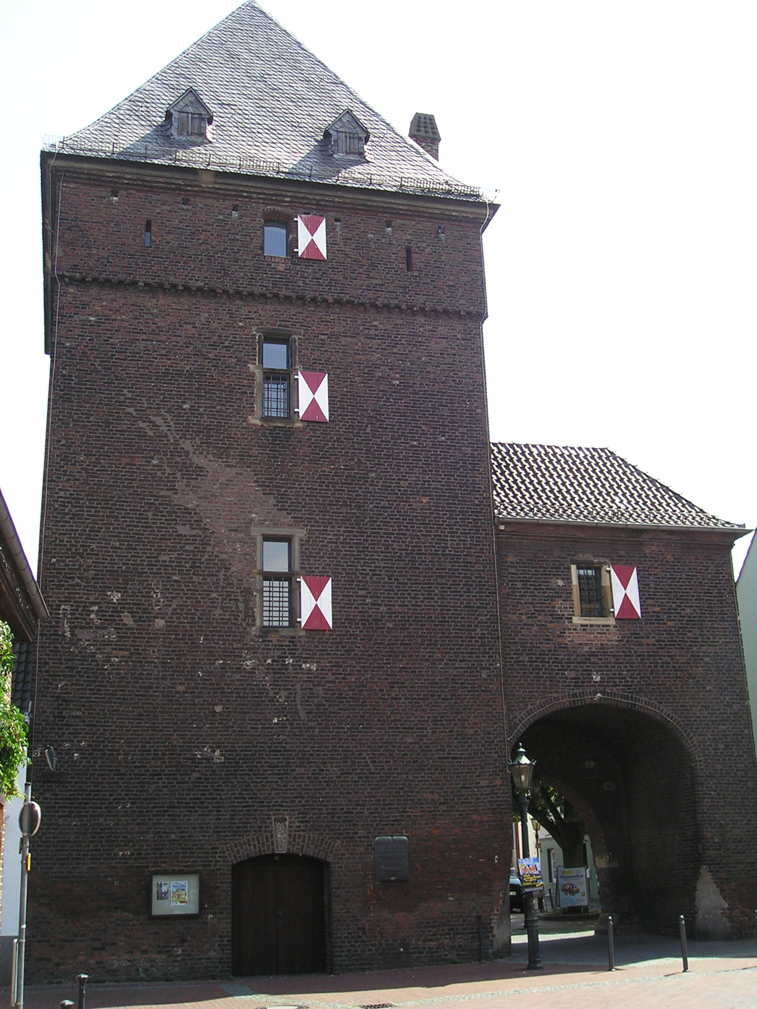 own photo